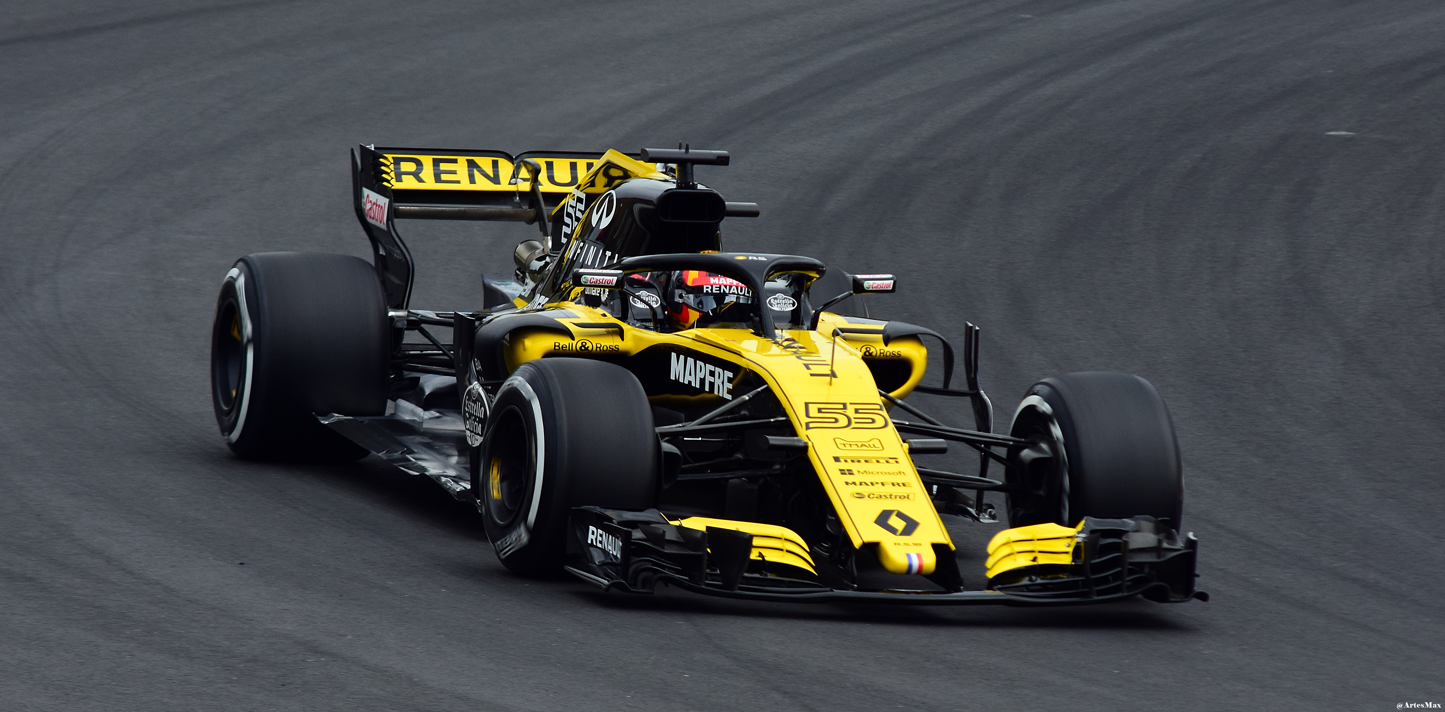 Carlos Sainz Jr. driving the Renault R.S. 18 during pre-season testing in Barcelona